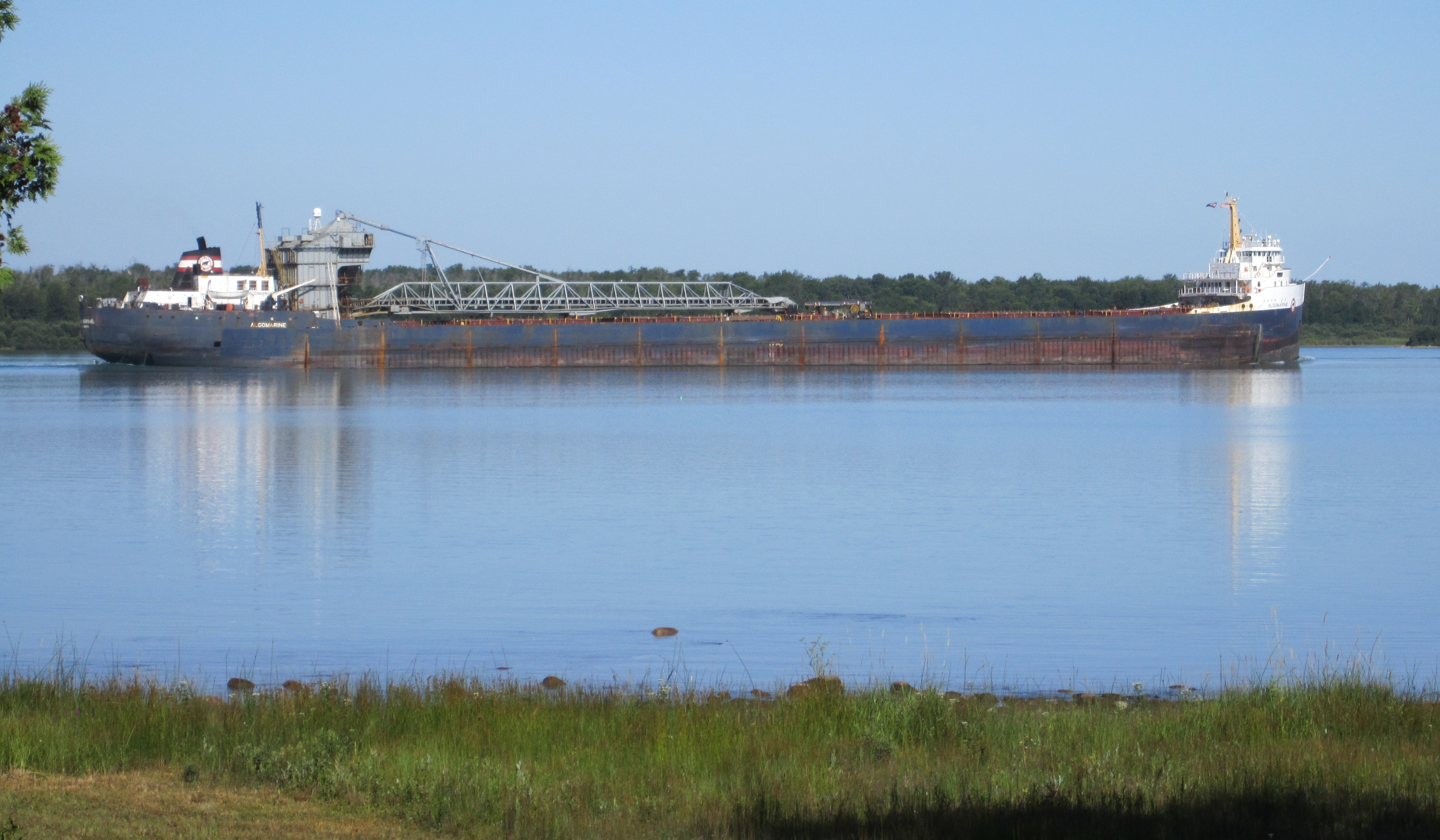 The Algomarine, a 223 metre bulk carrier operated by Algoma Central Corporation in the northwest shipping channel between St. Joseph Island, Ontario and Neebish Island, Michigan.